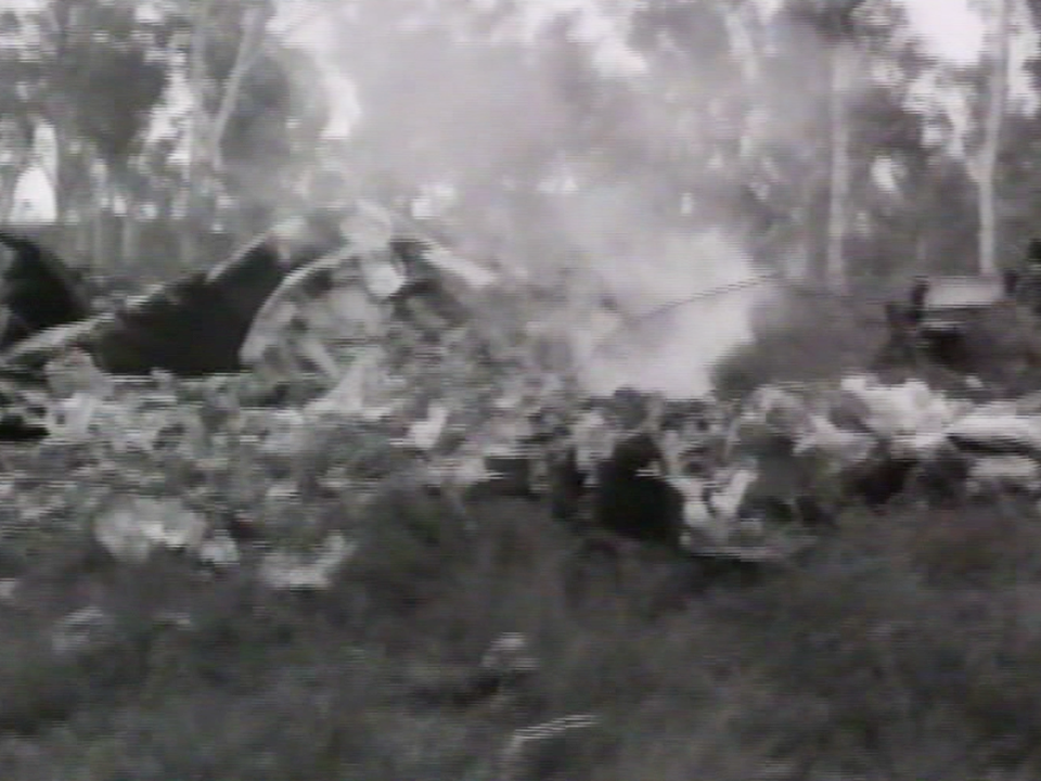 Screenshot of newsreel footage of Skymaster air crash near Perth, Western australia on 26 June 1950